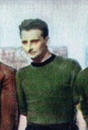 Italian footballer Sandro Puppo with A.F.C. Venezia in the 1940–41 season.